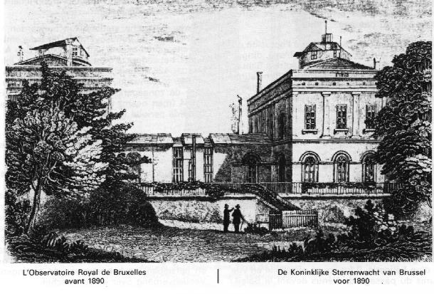 Former observatory in Sint-Joost-ten-Node, Belgium